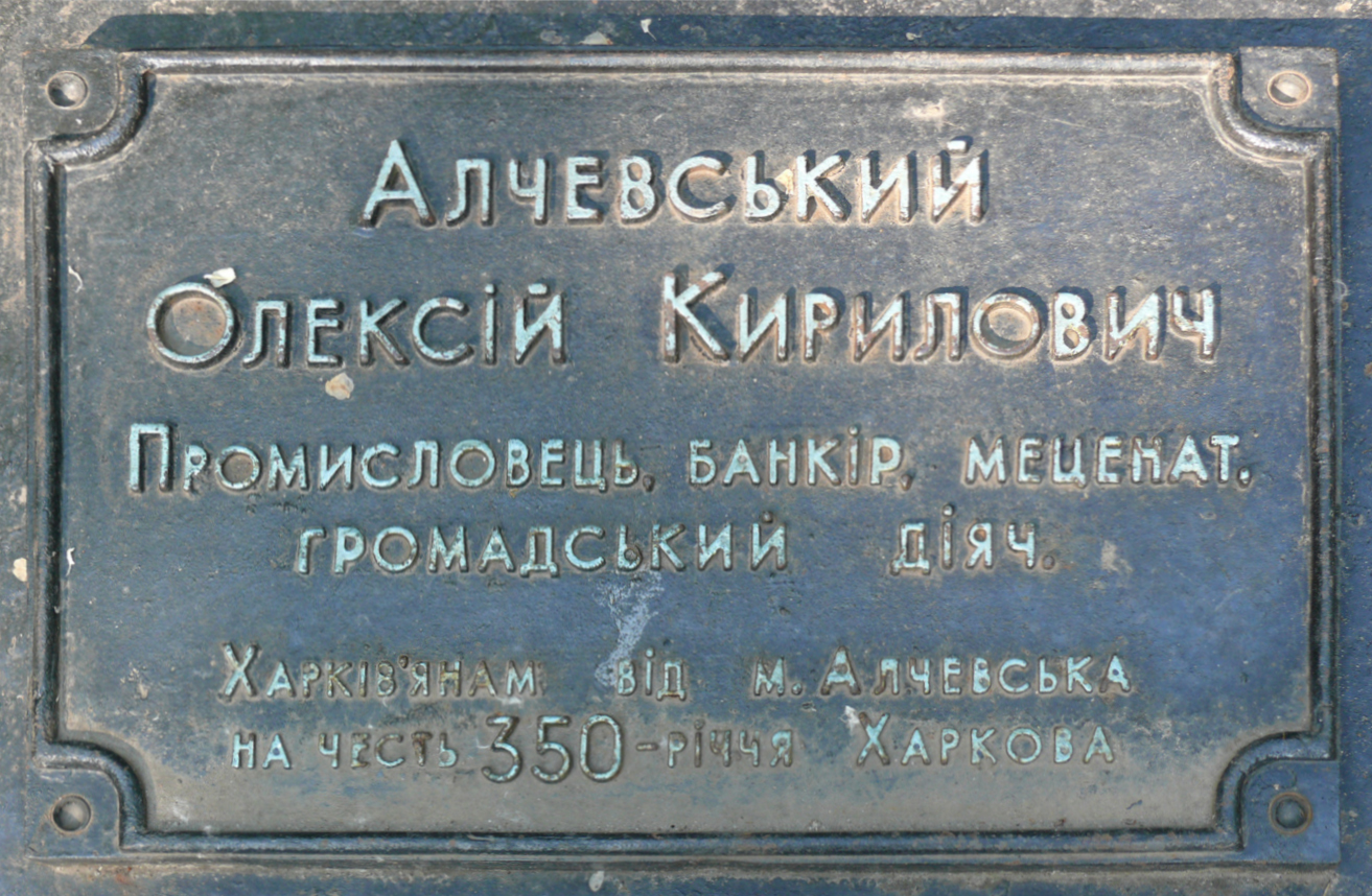 Alchevsky monument memorial tablet